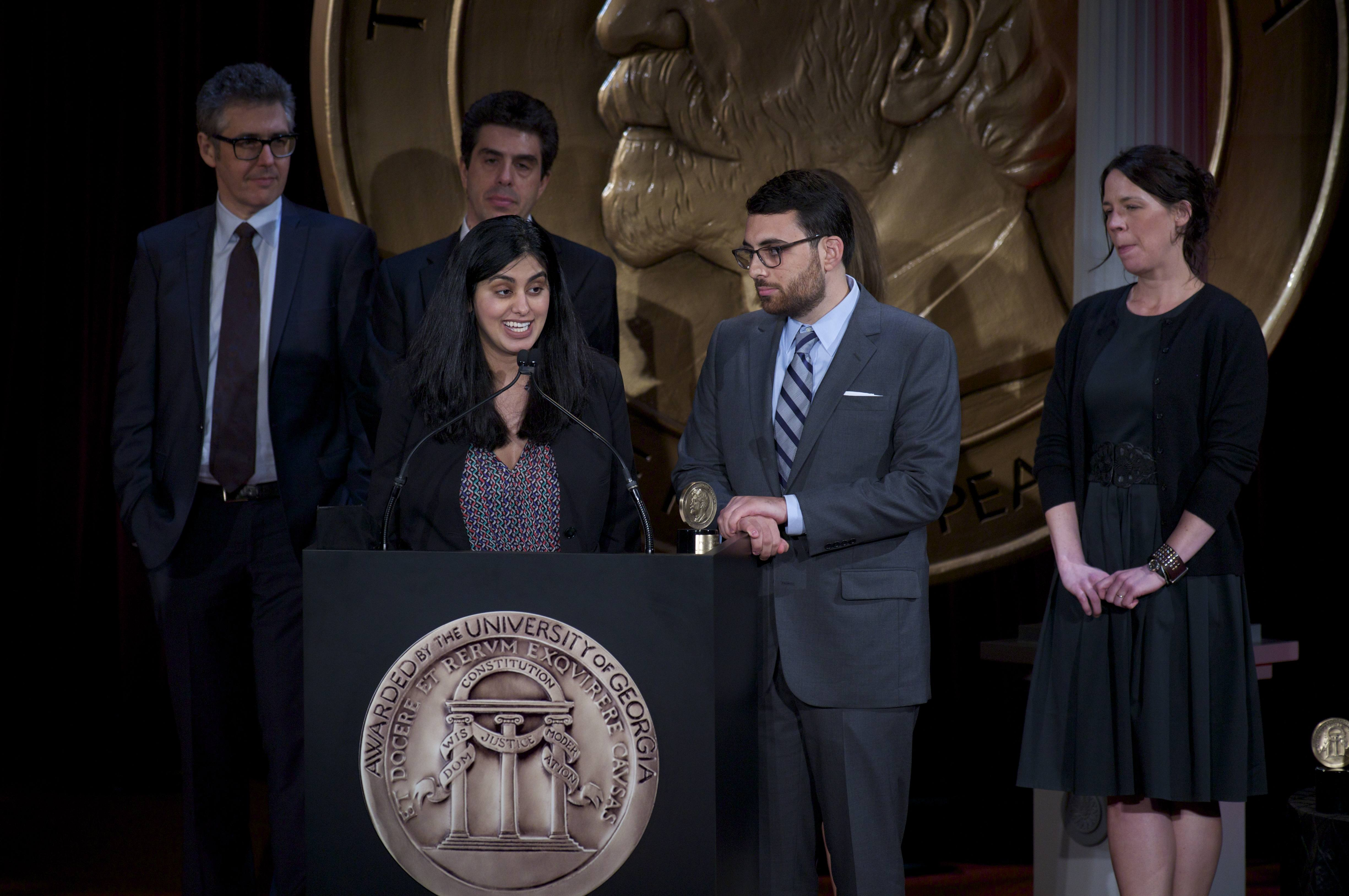 PHOTO CREDIT: ANDERS KRUSBERG / PEABODY AWARDS L to Rː Ira Glass, Sebastian Rotella, Habiba Nosheen, Brian Reed and Julie Snyder accept the Peabody Award for This American Life: What Happened at Dos Erres 72nd Annual Peabody Awards Luncheon Waldorf-Astoria Hotel May 20, 2013